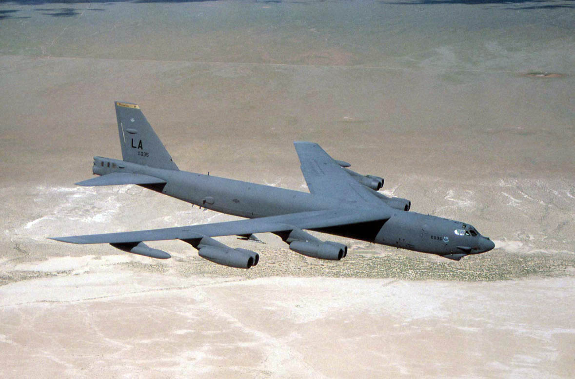 A Boeing B-52 in flying.